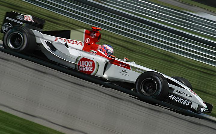 Jenson Button driving for British American Racing at the 2004 United States Grand Prix.